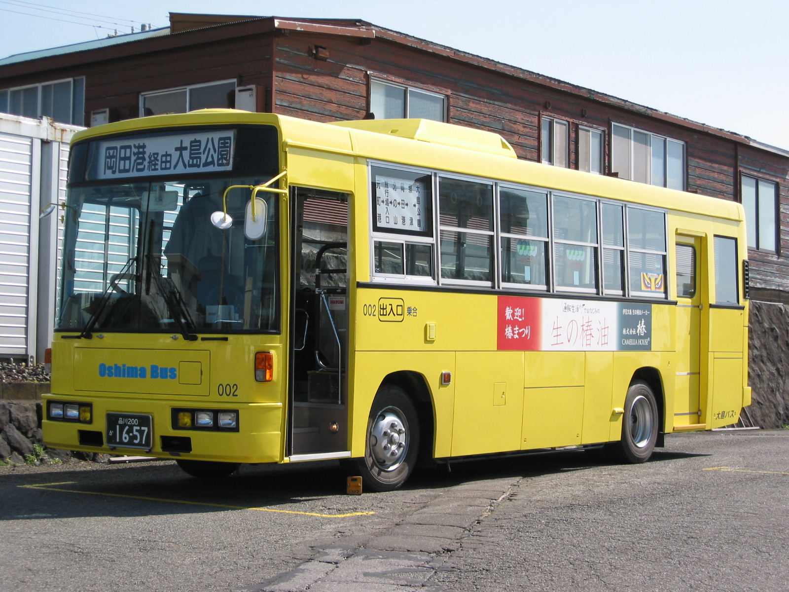 Oshima Bus car at Motomachiko Bus Terminal, Oshima Island, Tokyo.